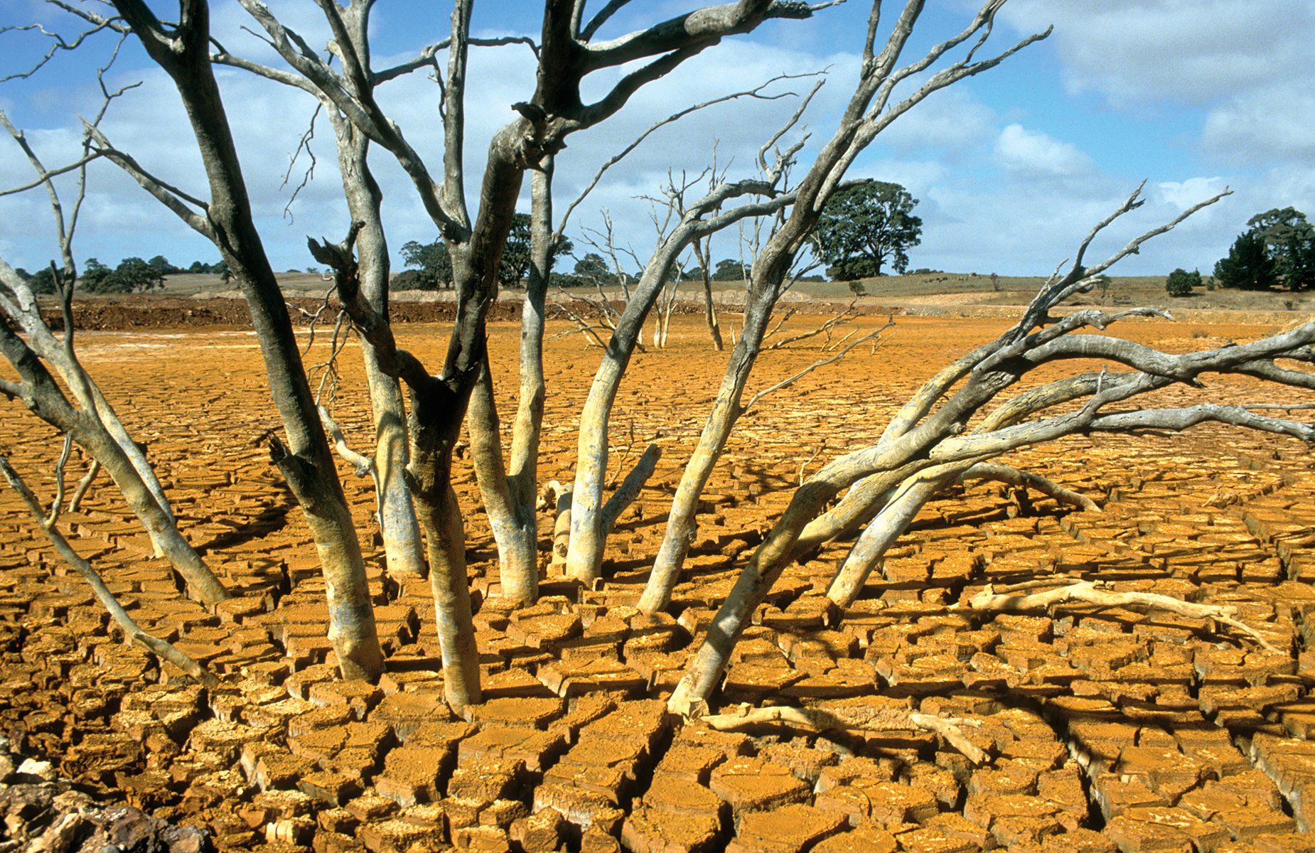 Dry bed of the tailings dam at the Brukunga Pyrite Mine, east of Adelaide in the Mount Lofty Ranges, South Australia. 1992.